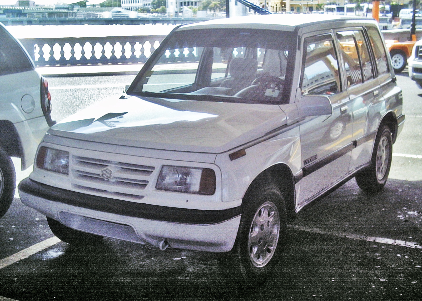 1996-1998 Suzuki Vitara photographed in San Juan, Puerto Rico.